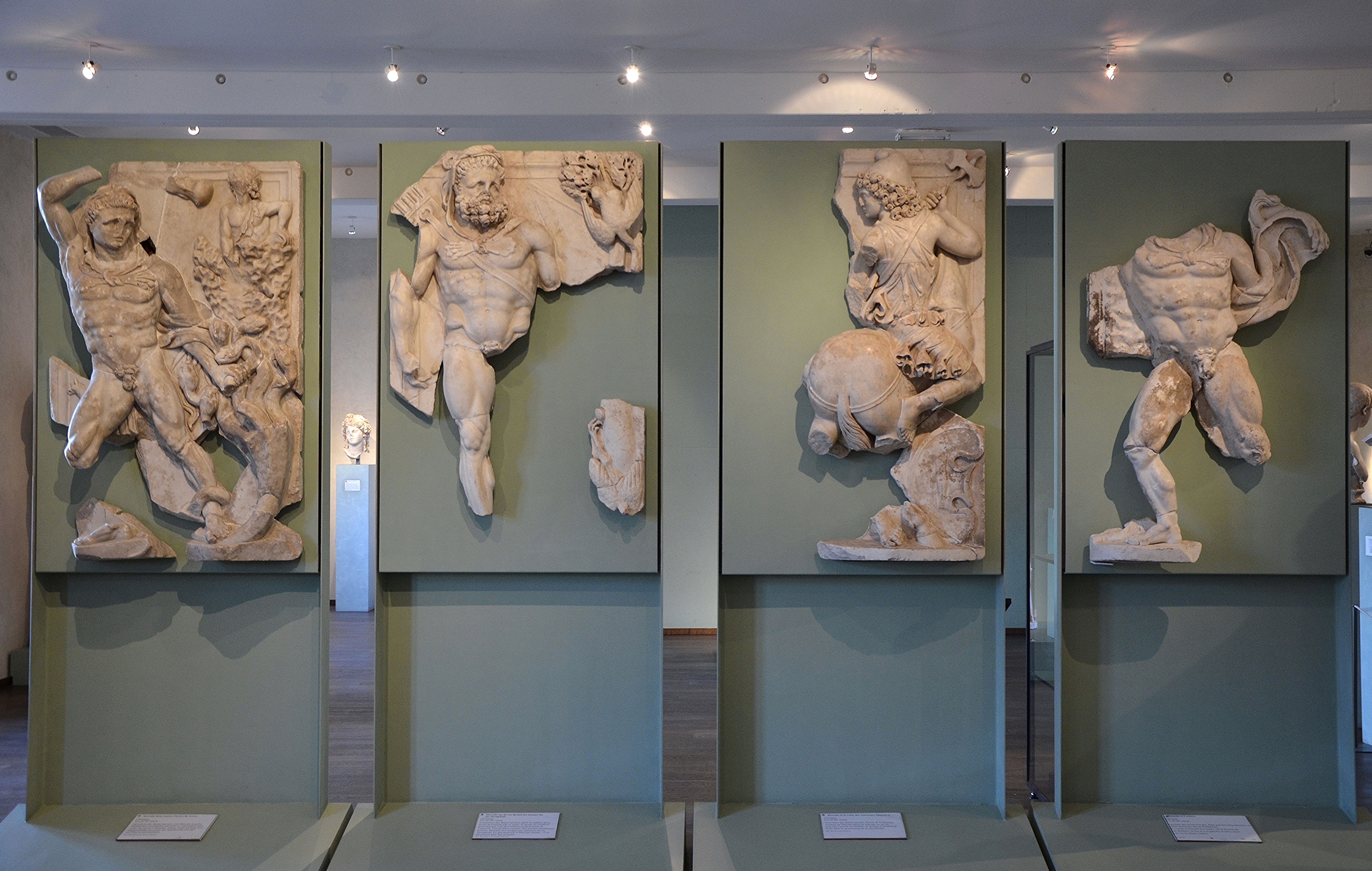 The Labours of Hercules, marble relief discovered at the site of the Roman villa of Chiragan, end of 3rd century AD, Musée Saint-Raymond Toulouse, France